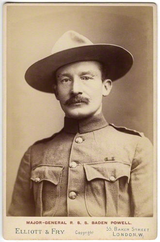 Major-General Robert Stephenson Smyth Baden-Powell, 1896. "The photograph was taken for Elliott and Fry by Francis Henry Hart in 1896 at the time of the Matabele Campaign. It was reissued at various times with different captions as Baden-Powell's fame grew. Baden Powell is decorated with an Ashanti Star ribbon." —National Portrait Gallery, London, Robert Stephenson Smyth Baden-Powell, 1st Baron Baden-Powell